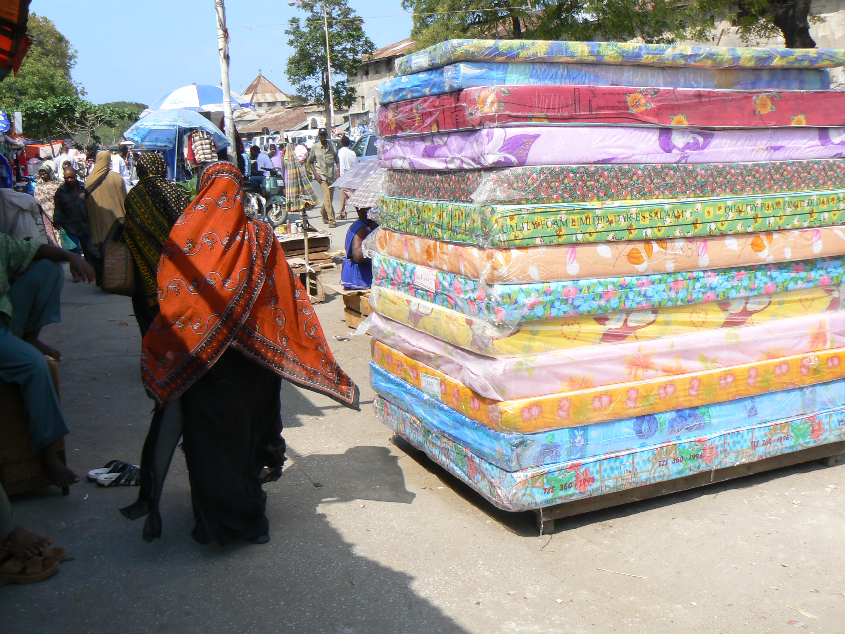 Carved door with Arabic calligraphy in Zanzibar